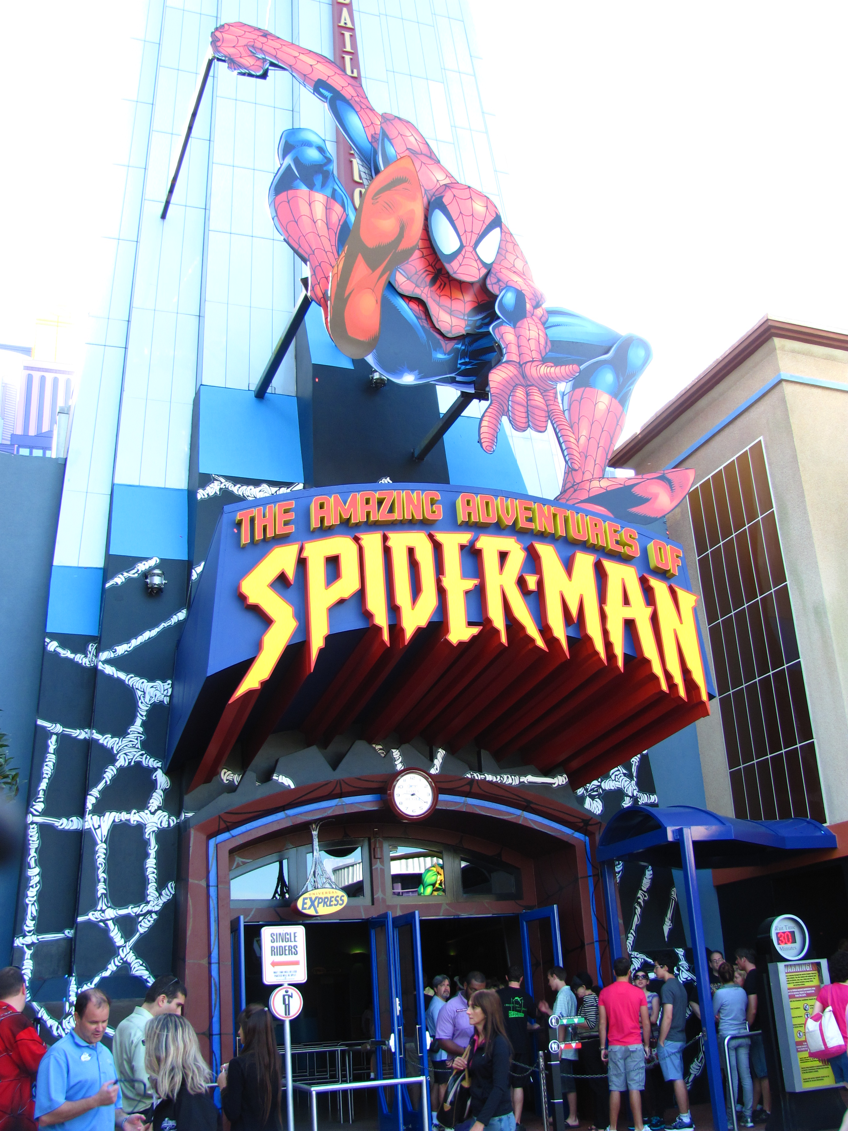 Good news: The Amazing Adventures of Spiderman was scheduled to reopen from its HD makeover on the very last day we were in Florida!